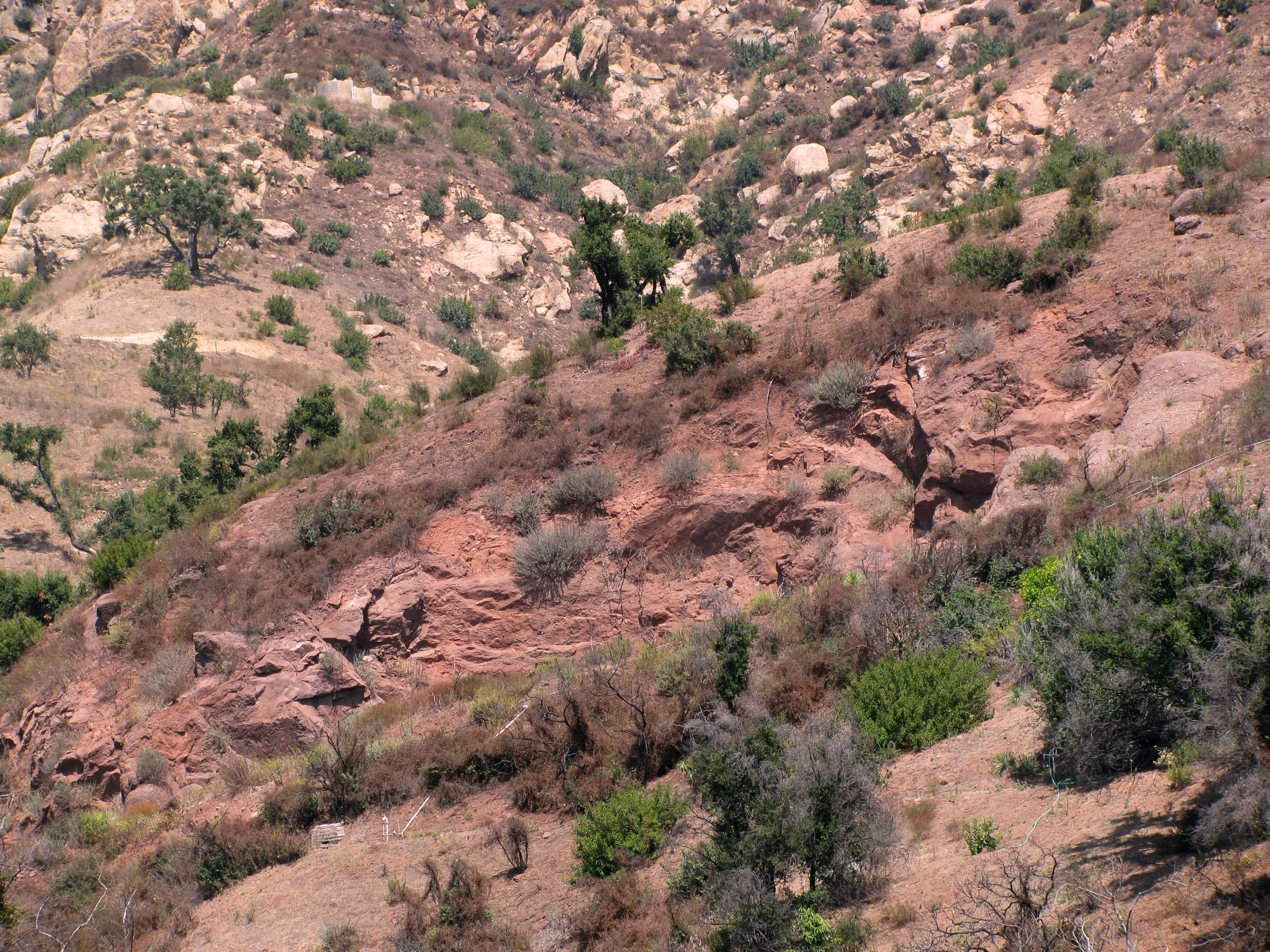 Outcrop of Sespe Formation, north of Mountain Drive, Santa Barbara; photo by self, GFDL/equiv